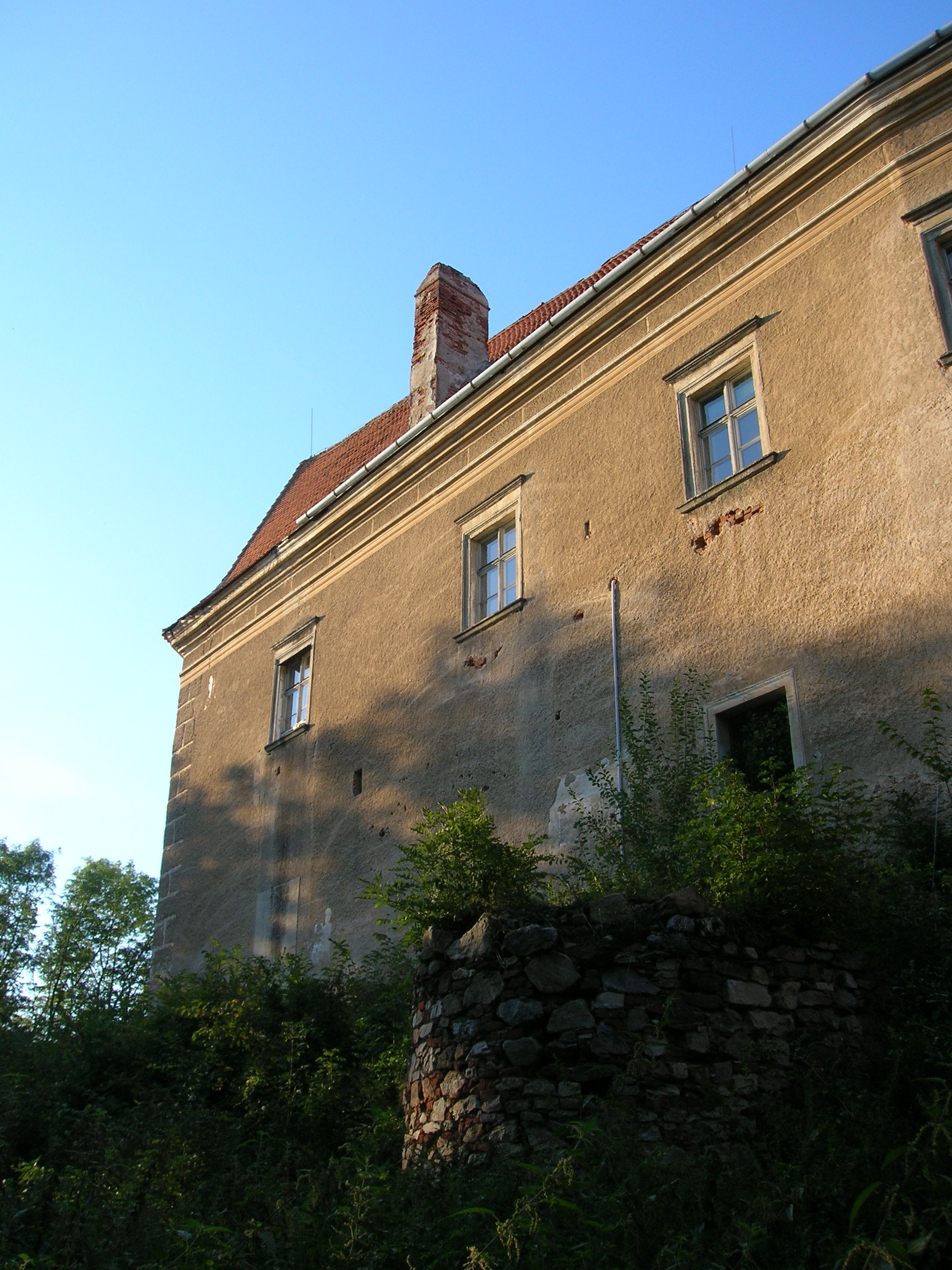 Čáslavice. Sádek Castle. Wall